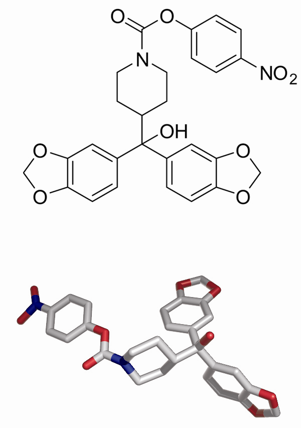 Structures of JZL184